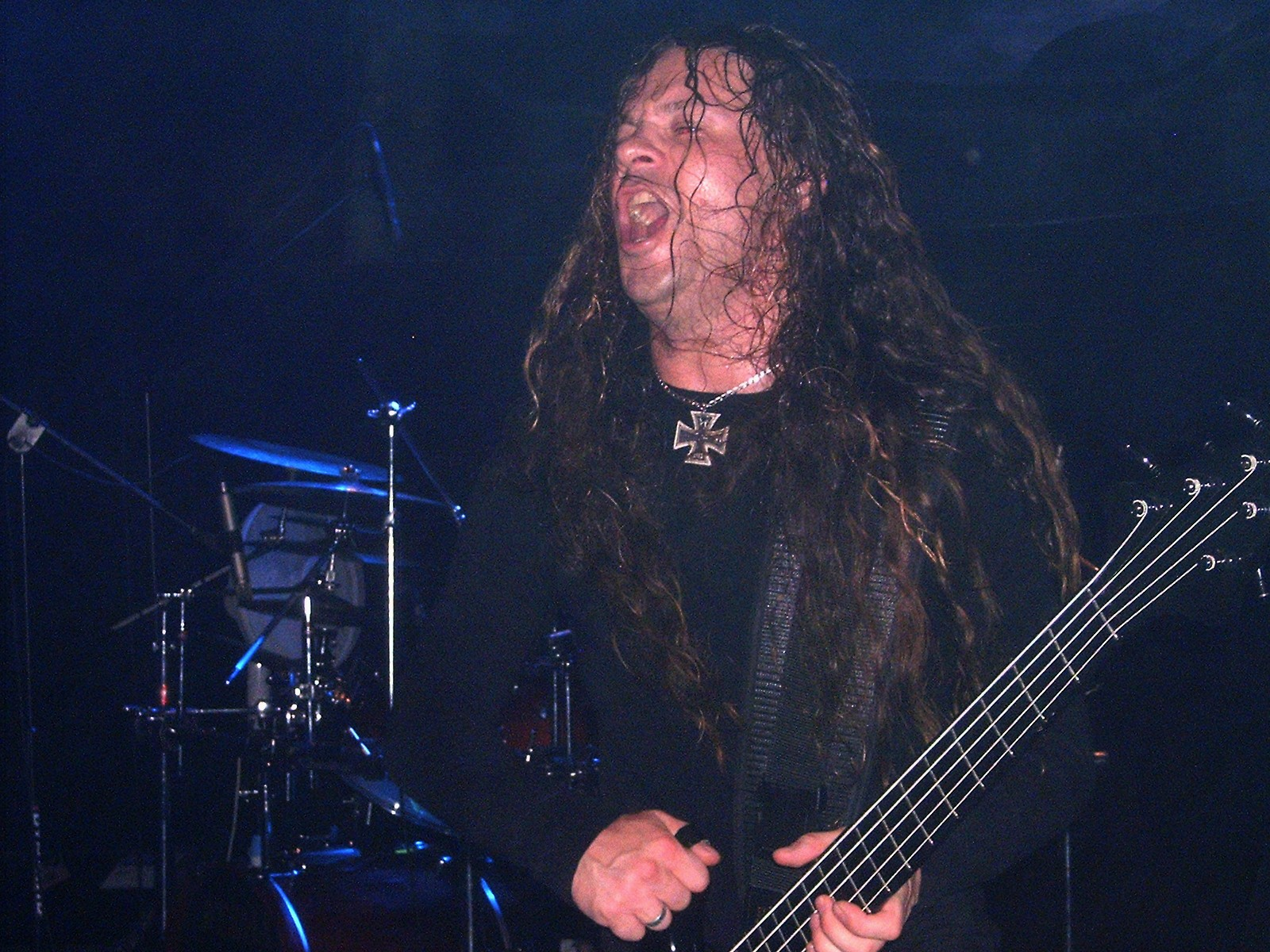 Marcin "Novy" Nowak from polish death metal band Vader playing live on tour in Poland